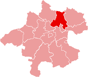 Location of Bezirk Urfahr-Umgebung within the Land of Upper Austria